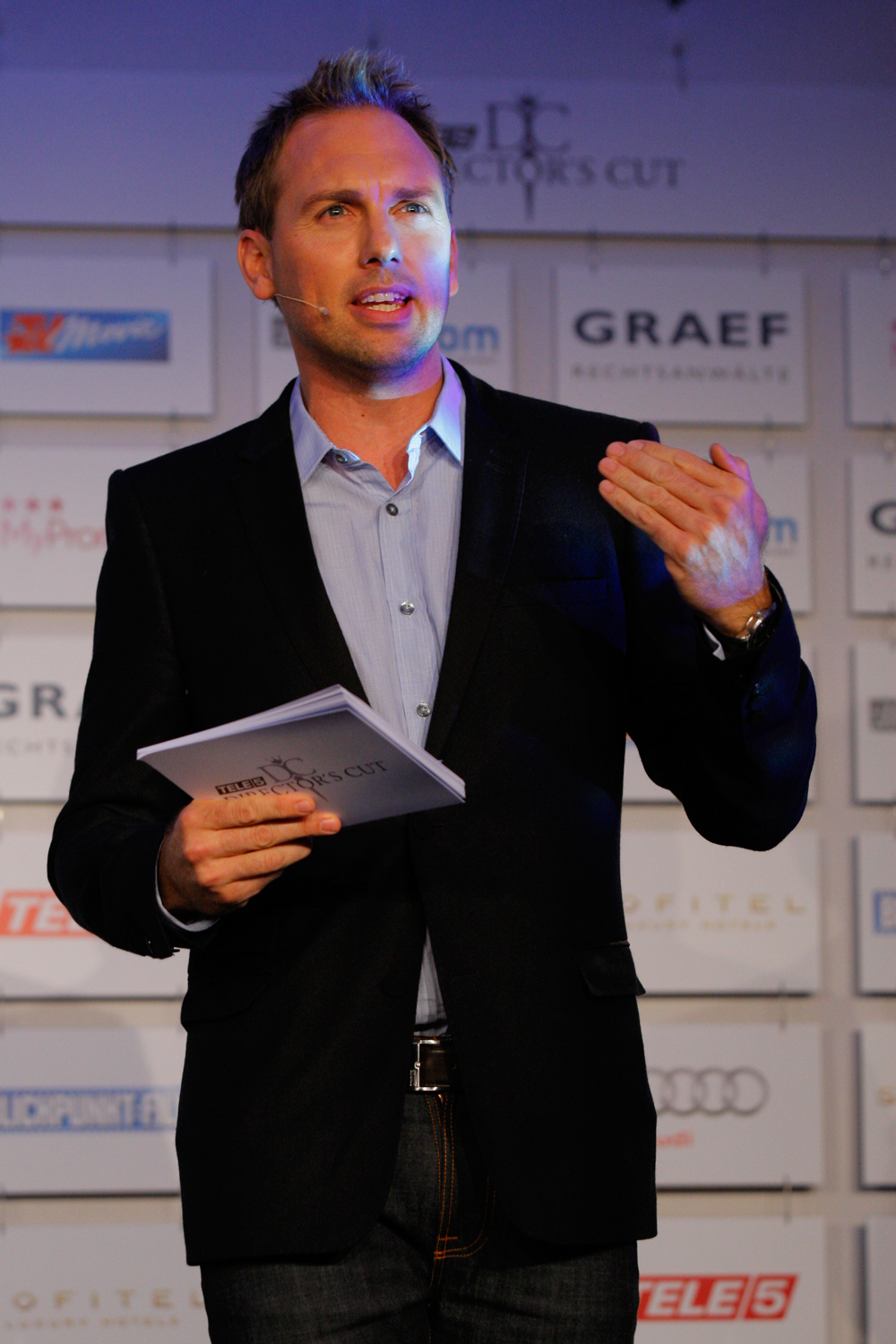 Steven Gätjen in 2012